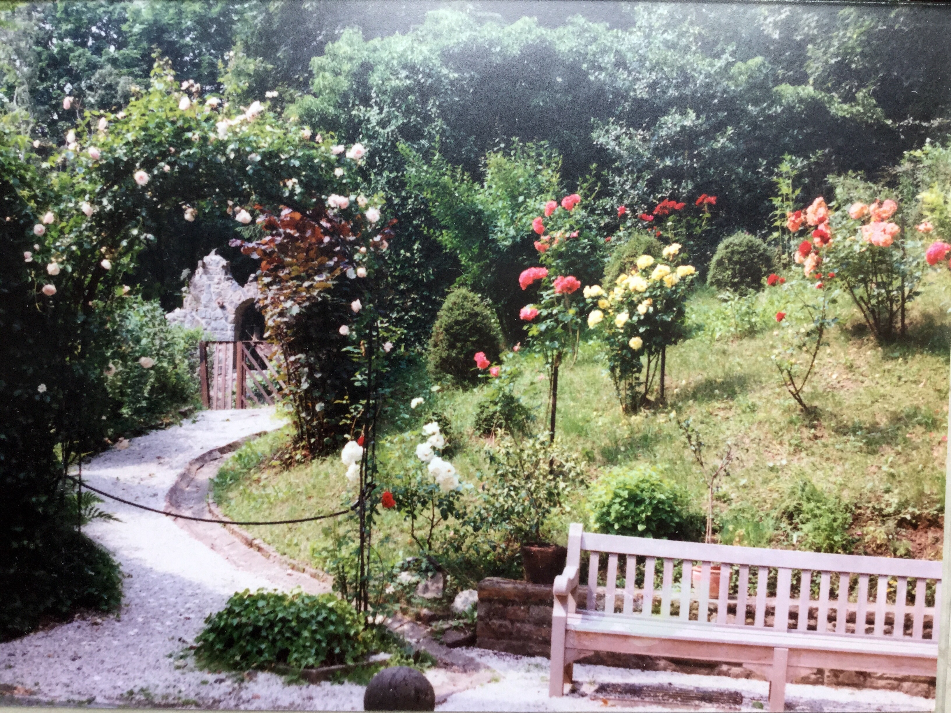 From the "internal" park, which is designed spatially by terraces and ruins and rose plantations, the viewer experiences a three-dimensional landscape.